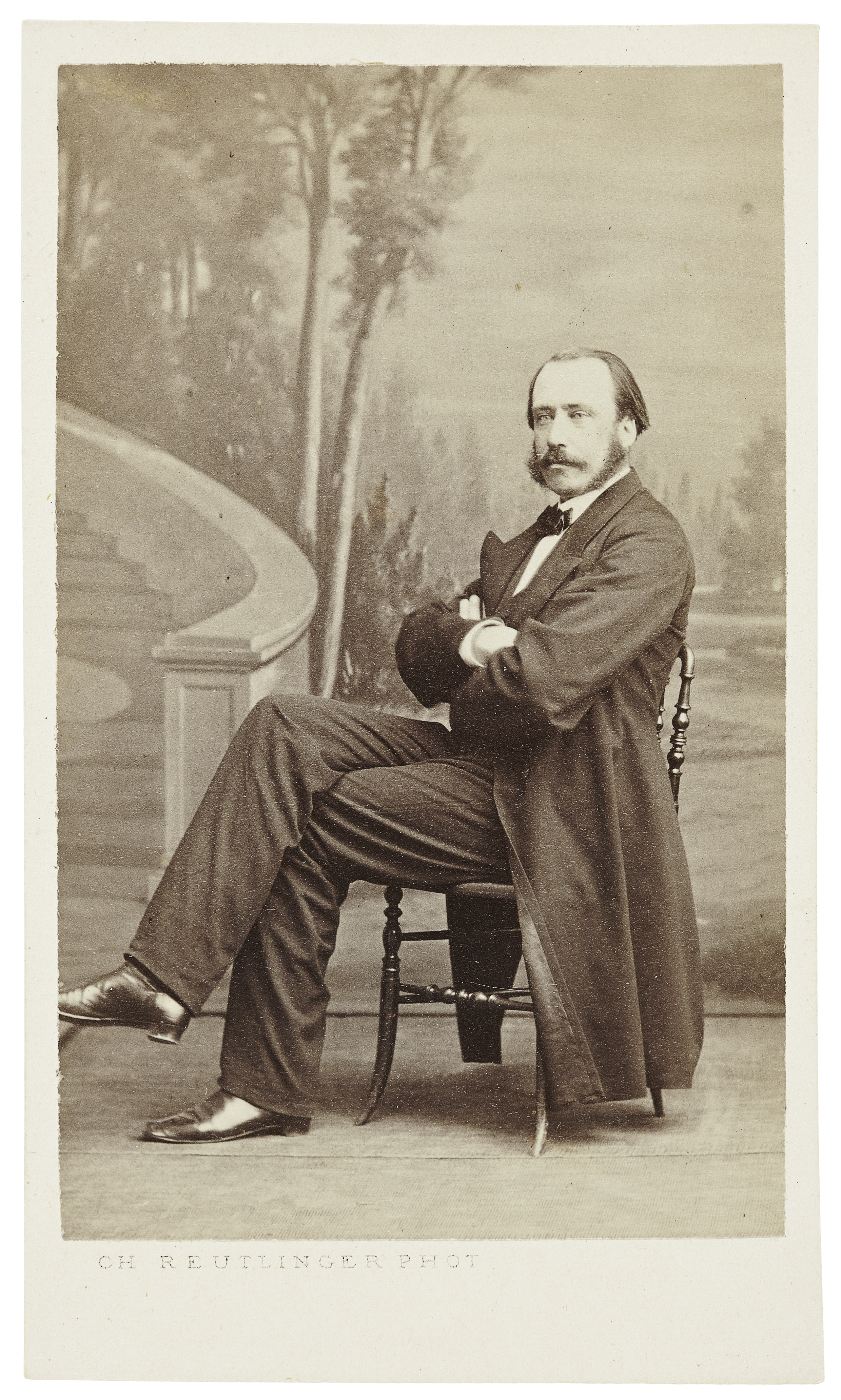 Photograph of the Finnish senator Fredrik Lerche (1828–1899).